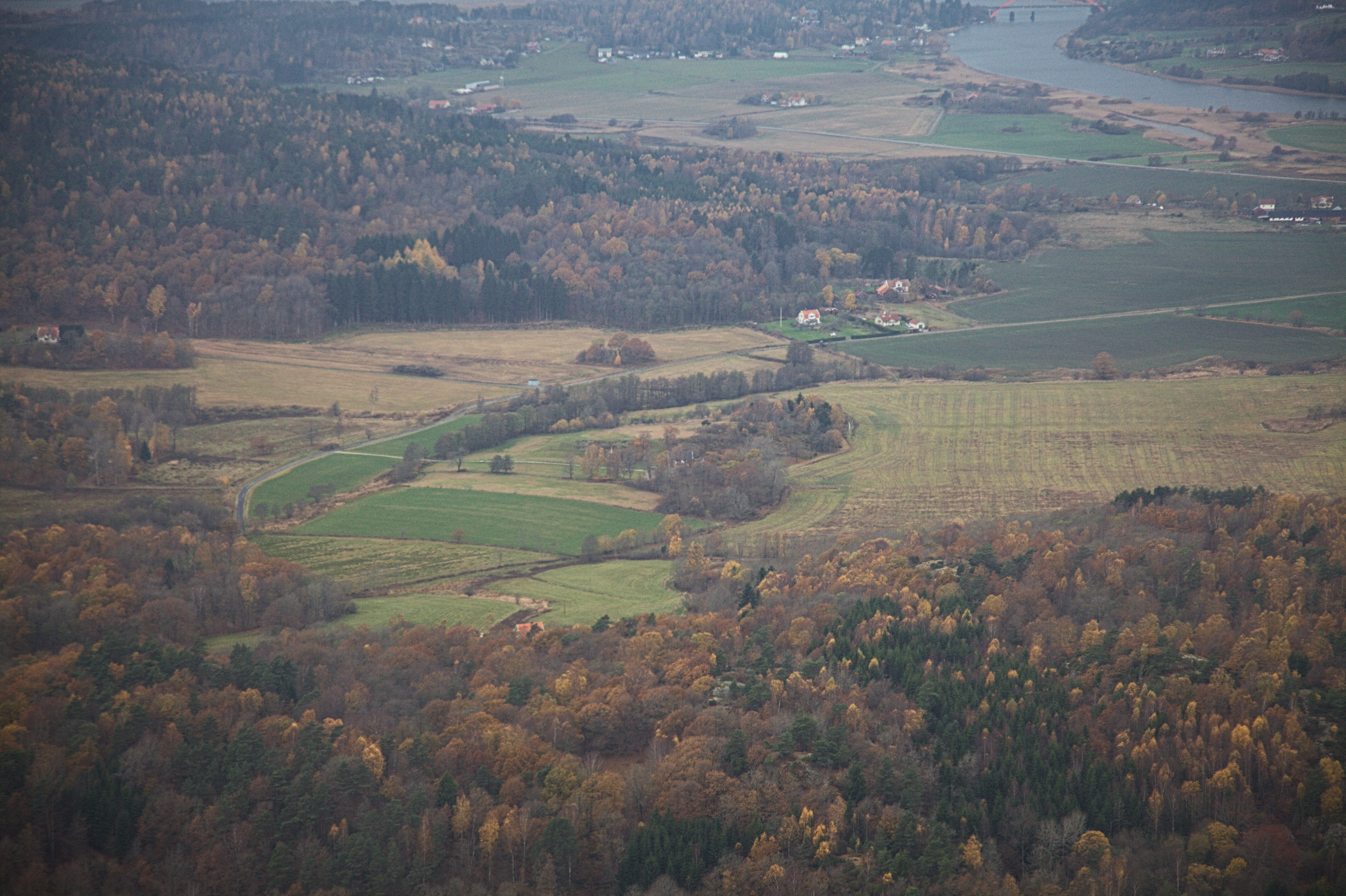 Photo taken on a helicopter over Gothenburg